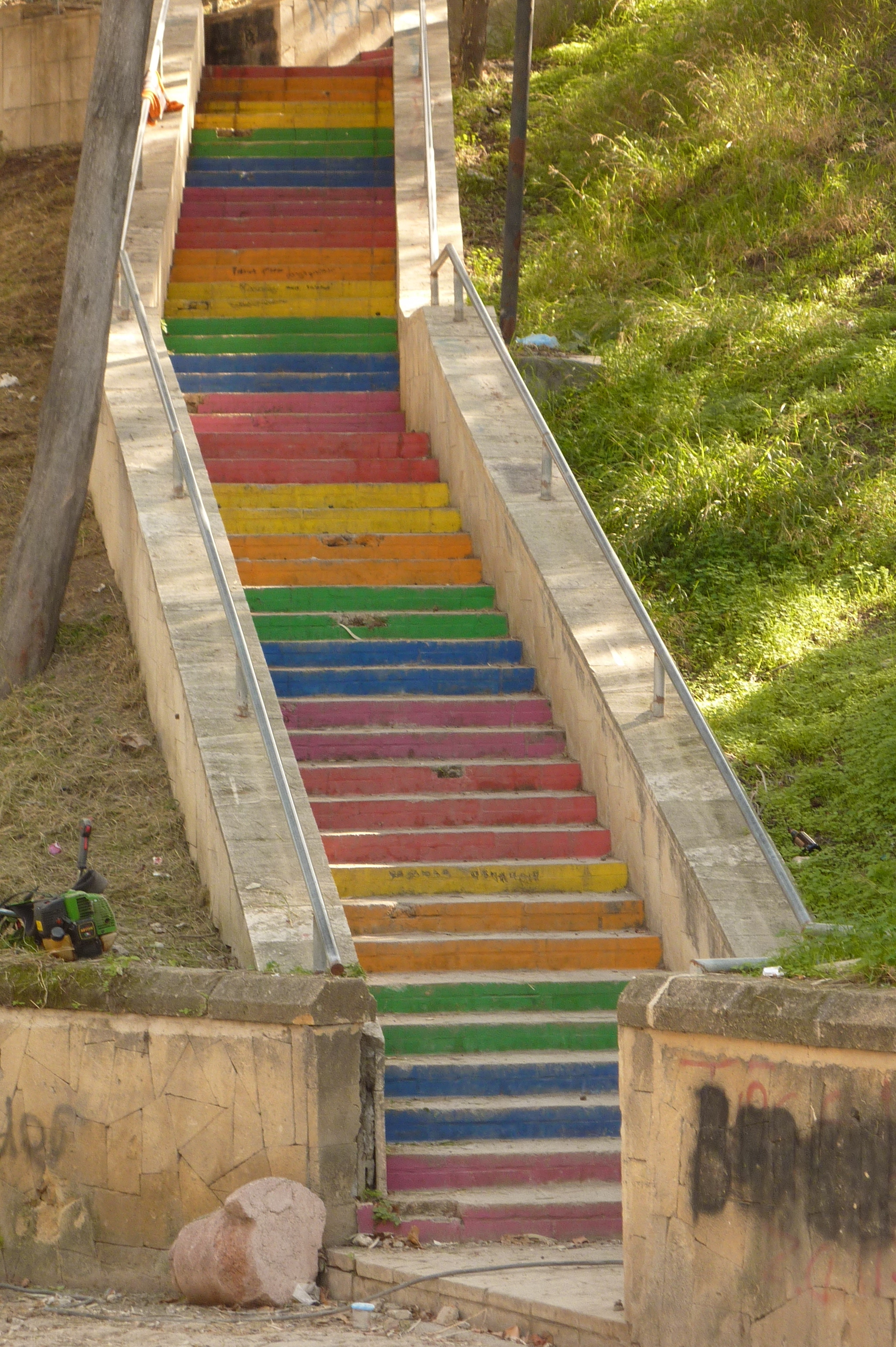 Street art - steps painted in rainbow colors in Kyrenia, Cyprus